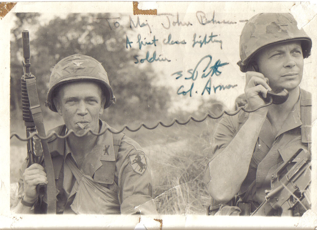 photo of Patton and Bahnsen